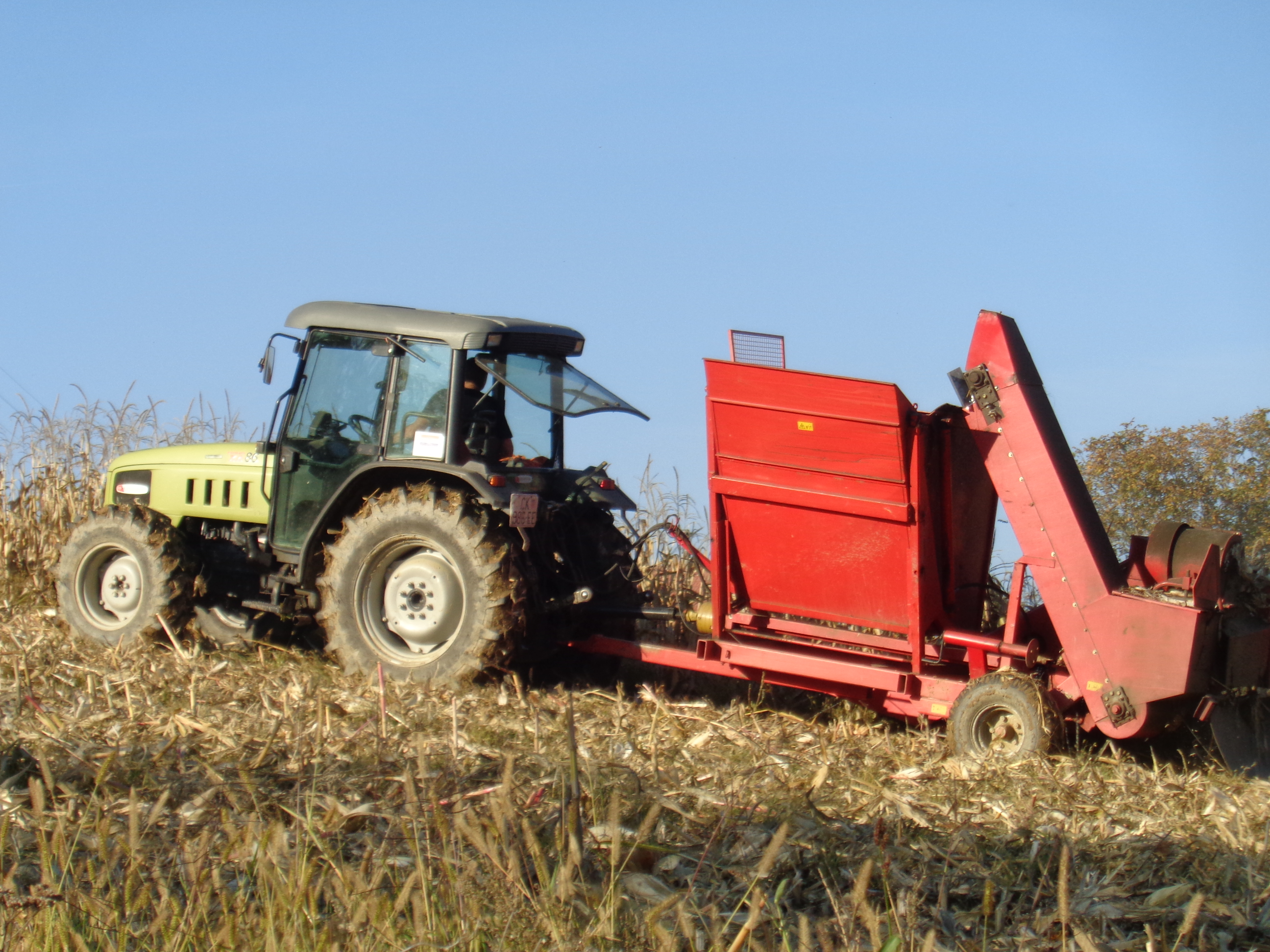 Maize combine harvester in a field (Medjimurie County, Croatia)